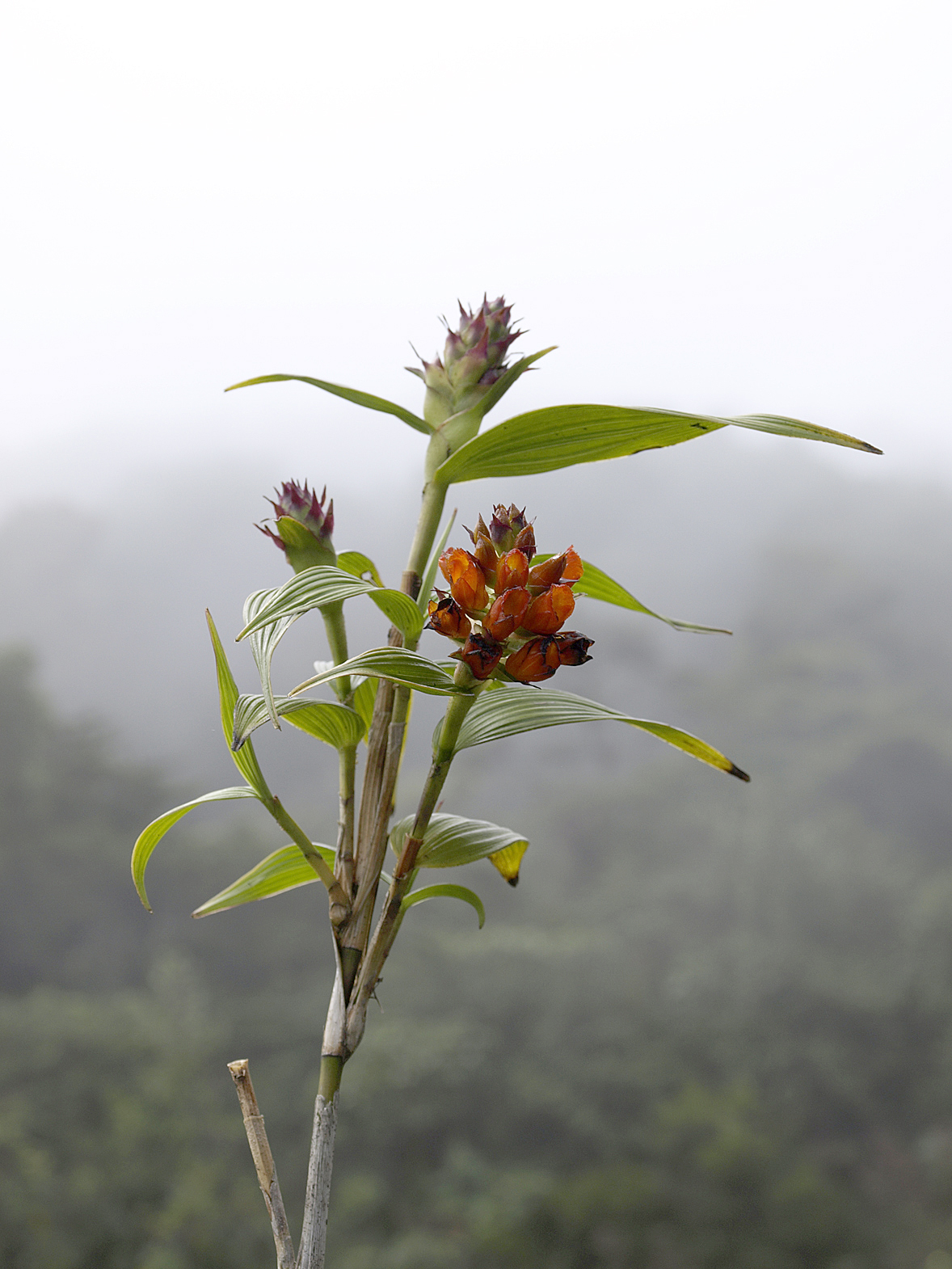 Poas Volcano, Costa Rica. Elleanthus hymenophorus, a terrestrial orchid, flowers quite small (1 cm or so). Thanks to Daniel - Costarica for the identification!